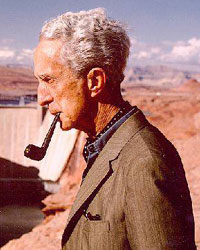 Norman Rockwell